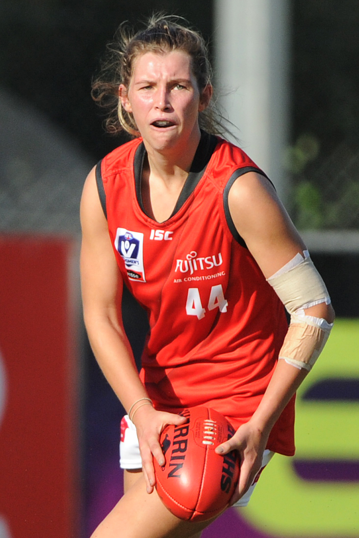 Maddy Collier of Essendon during the 2018 VFLW round 3 match between NT Thunder and Essendon at TIO Stadium on Saturday, 19 May 2018 in Darwin, Australia.